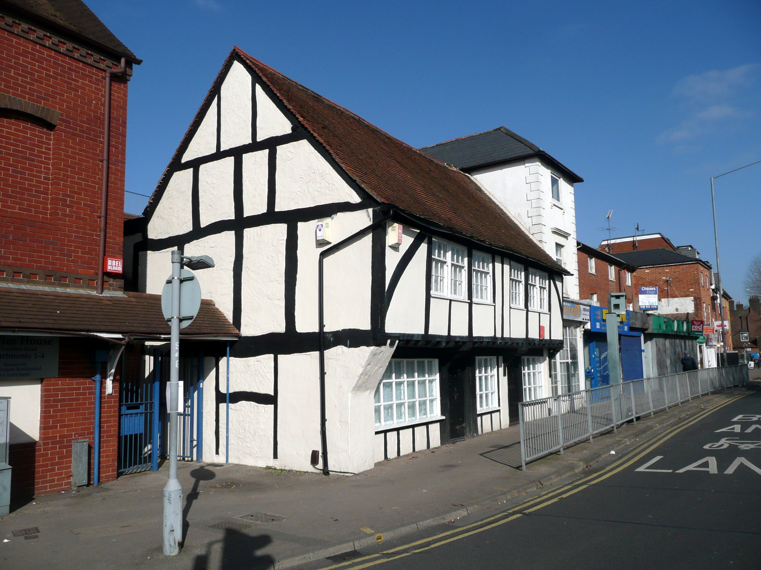 3-5 London Road, Reading. C. 15th-16th century